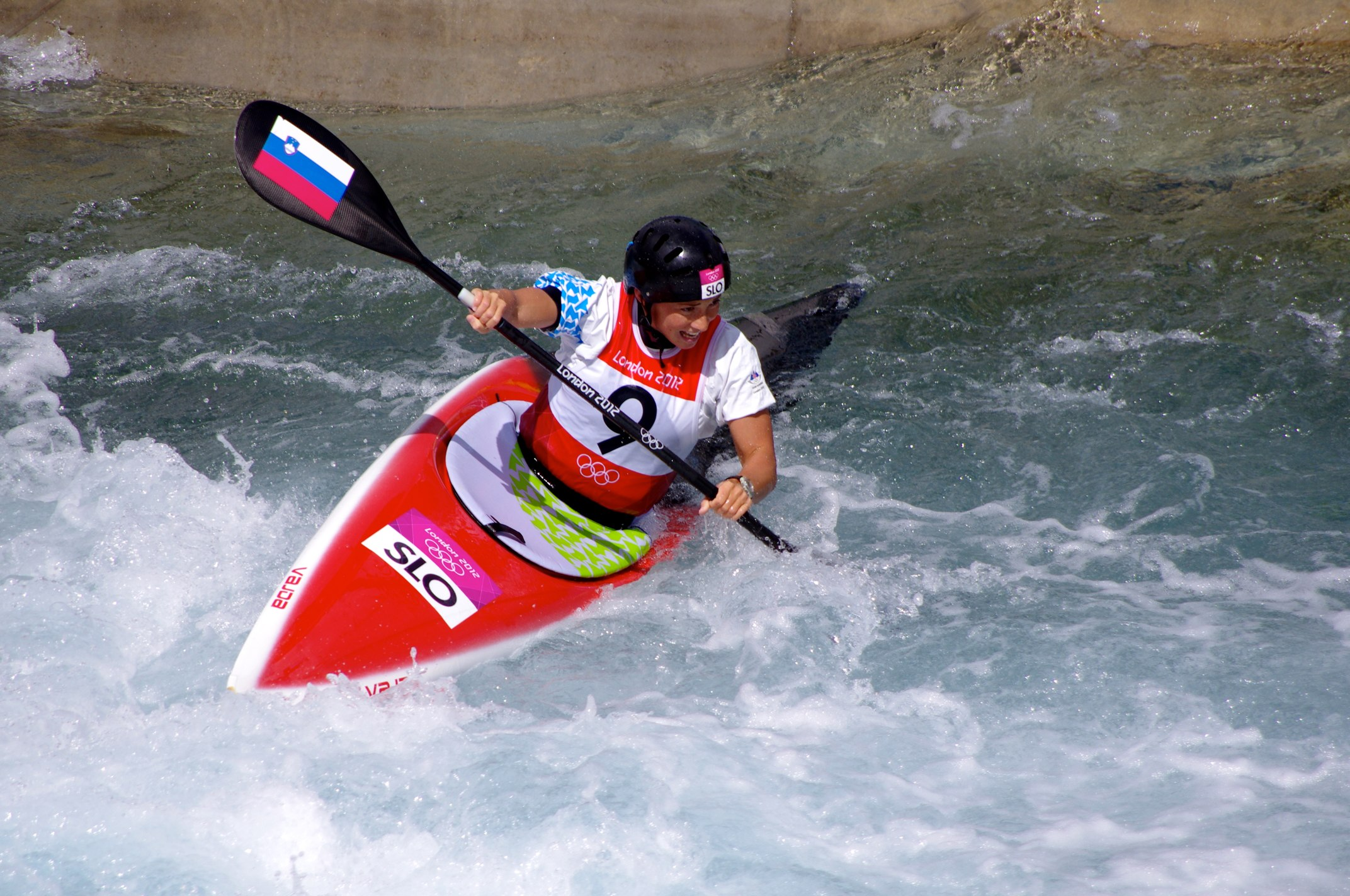 Canoeing at the 2012 Summer Olympics – Women's slalom K-1 Eva Terčelj (SLO)